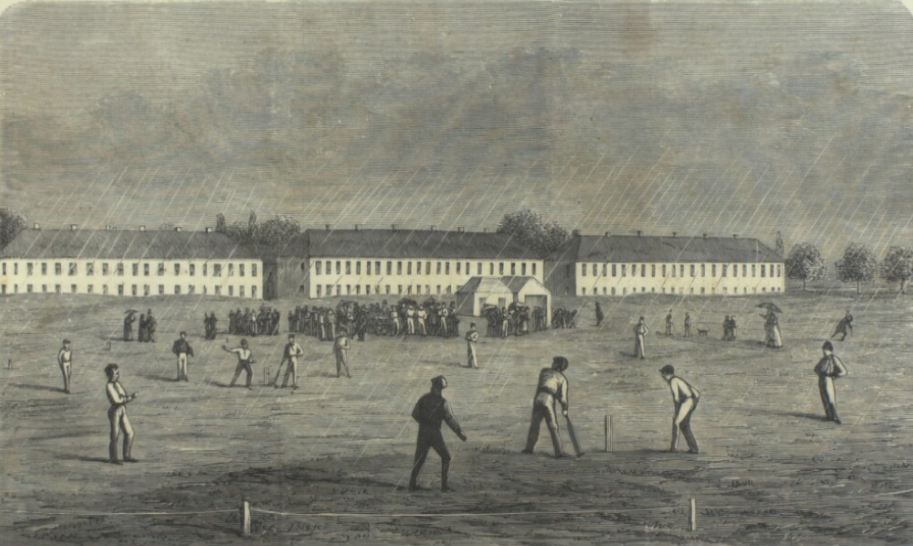 Øster Allé, cricketkamp mellem de københavnske og jydske spillere